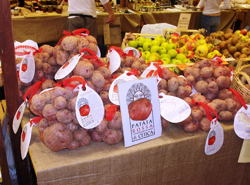 Patata rossa di Cetica, a traditional Tuscan variety of potato, photographed at a market during the Salone del Gusto di Torino in 2006 - Italy.